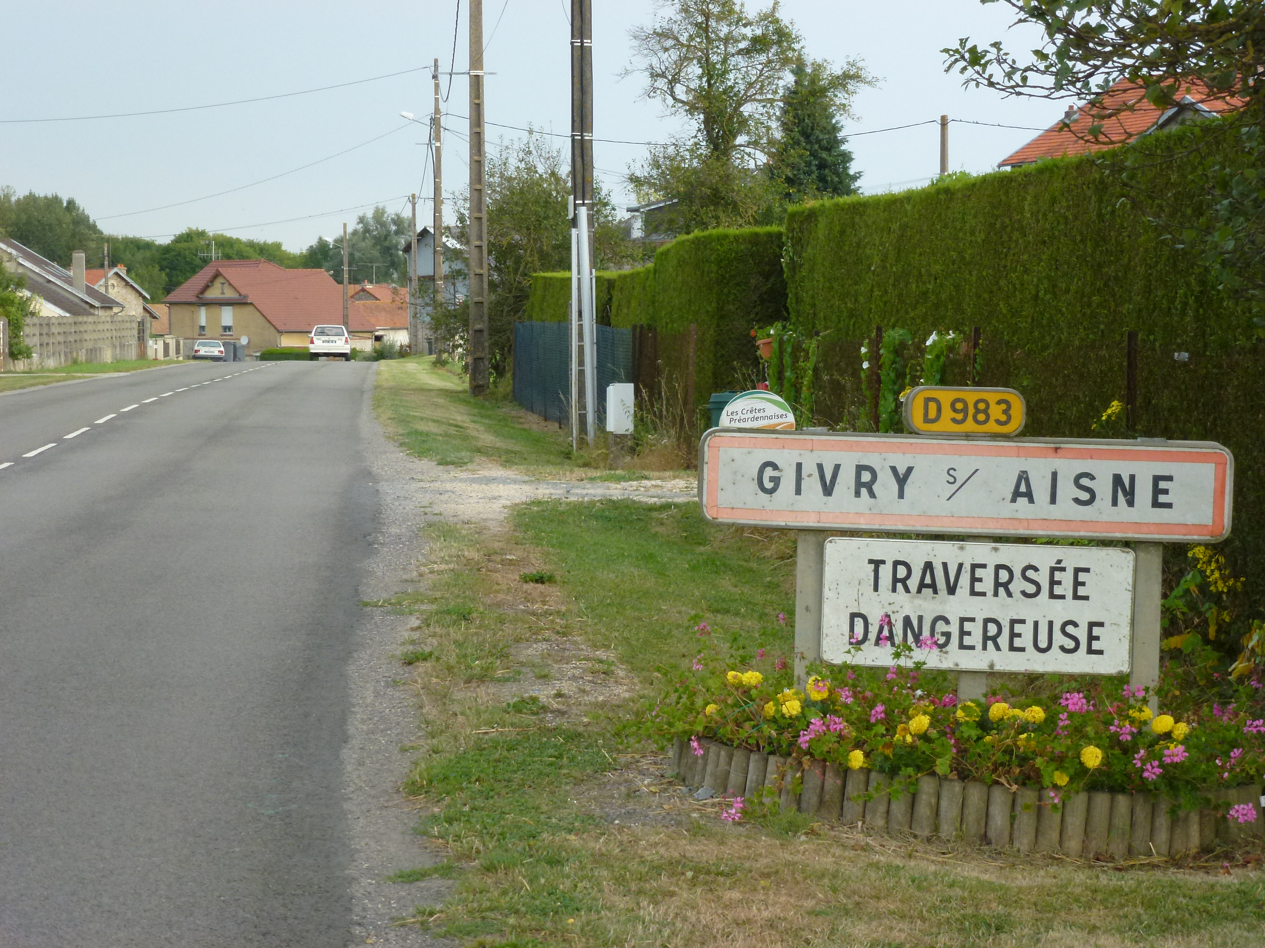 Givry (Ardennes) city limit sign